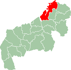 Location map of Analalava region in Mahajanga province.